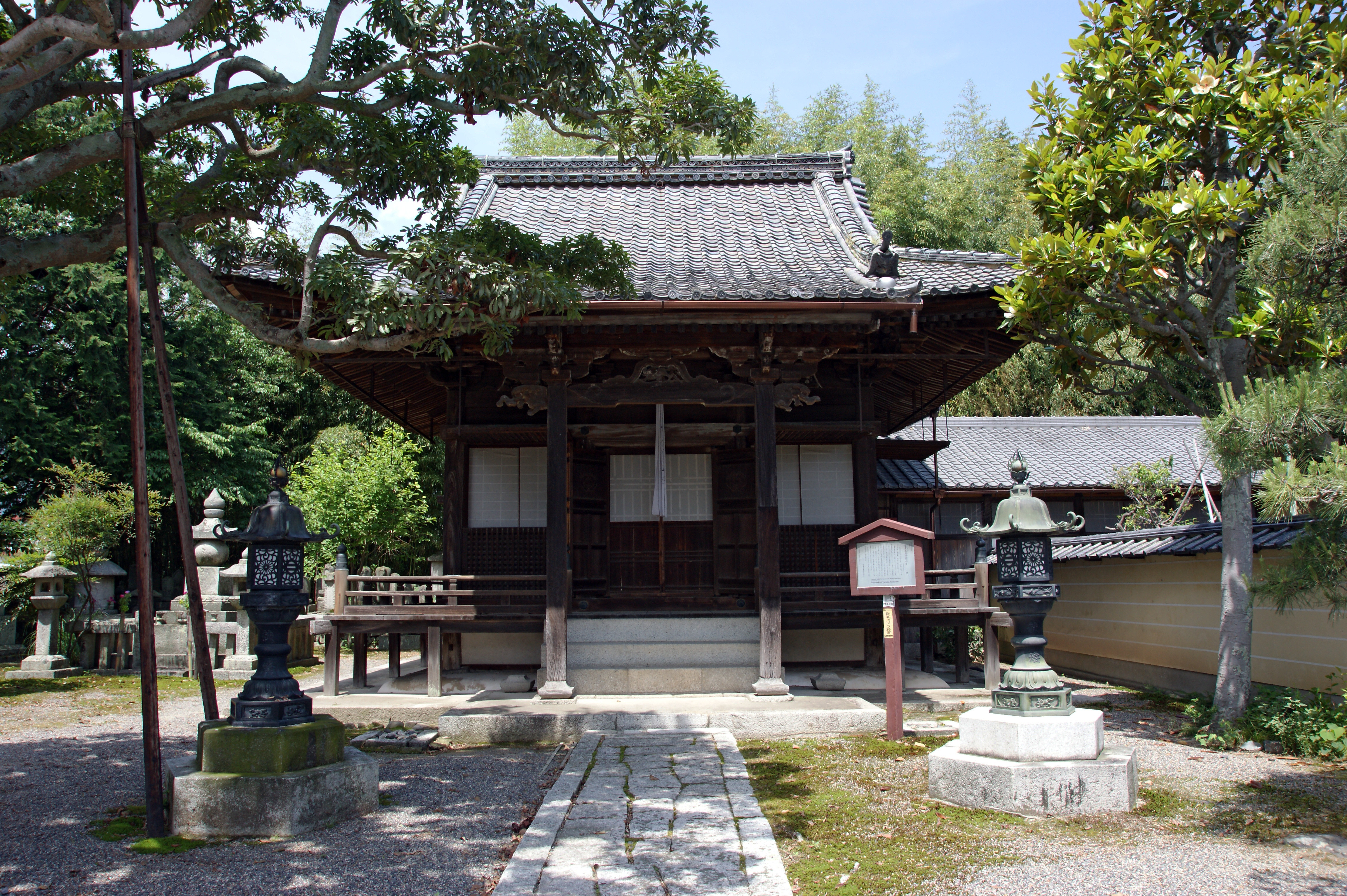 Shojuraigoji in Otsu, Shiga prefecture, Japan